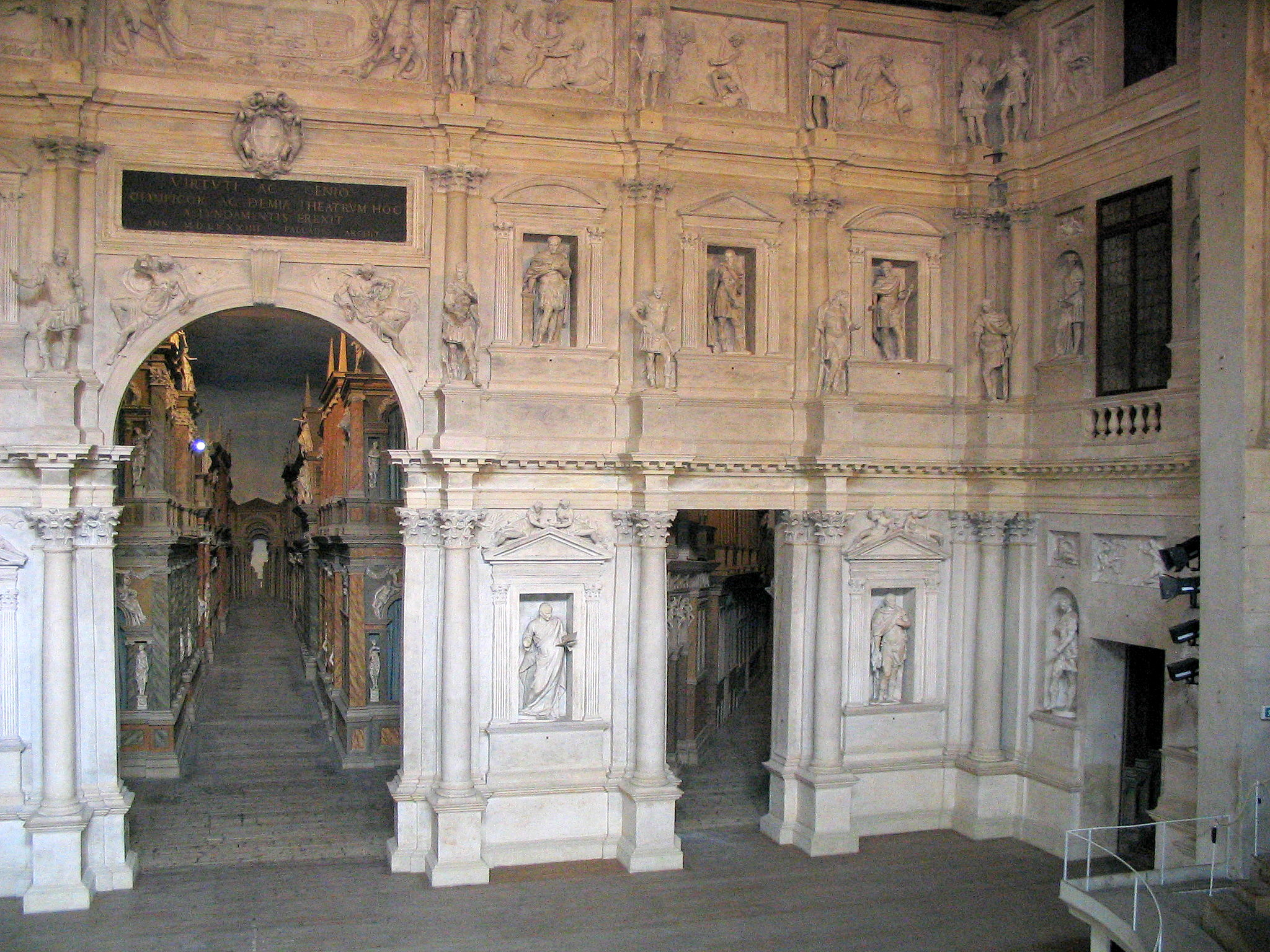 The stage at the Teatro Olimpico in Vicenza, Italy, showing the three-dimensional sets designed by Andrea Palladio.